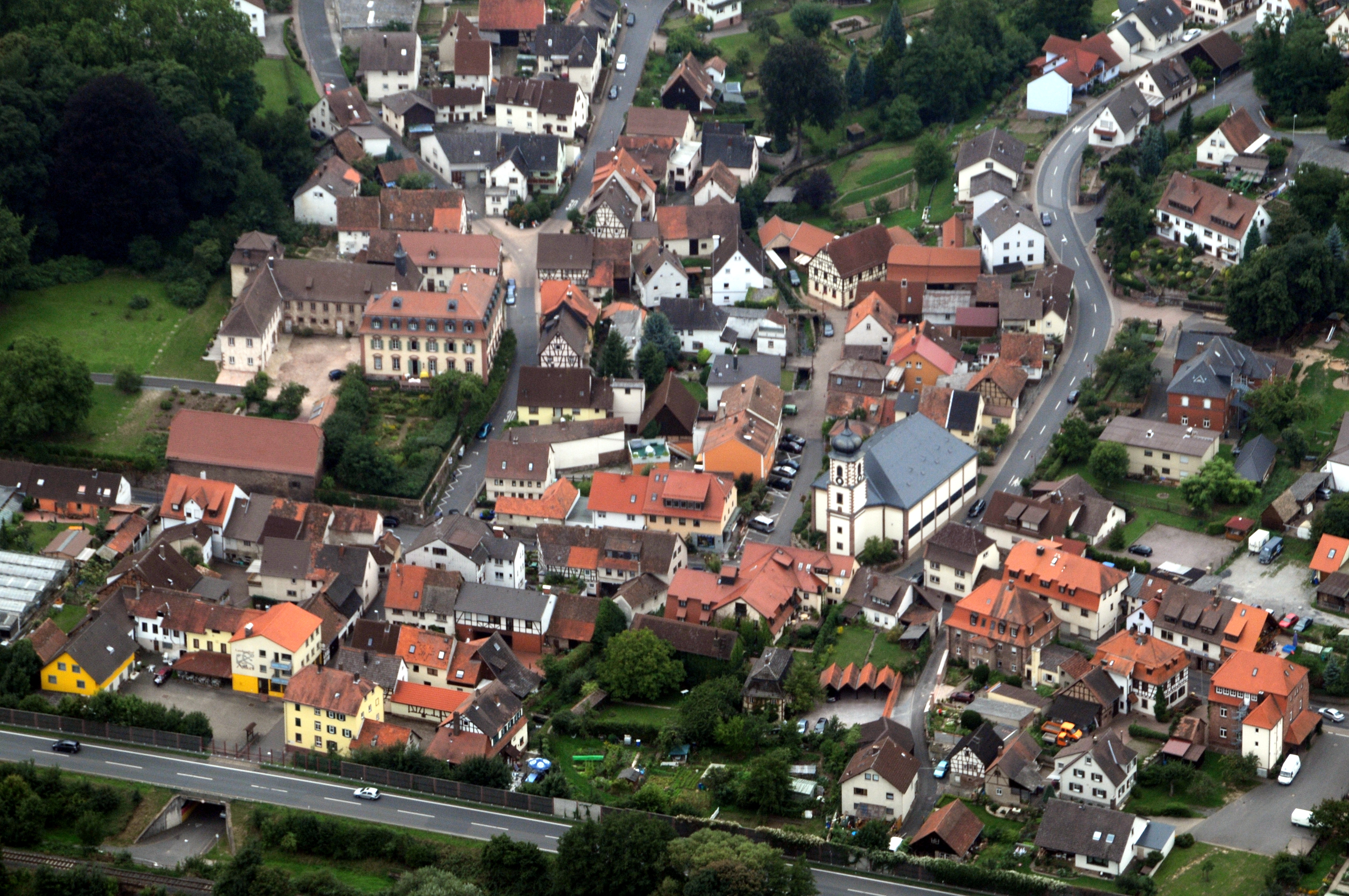 Laudenbach, Bavaria, Germany, aerial photograph